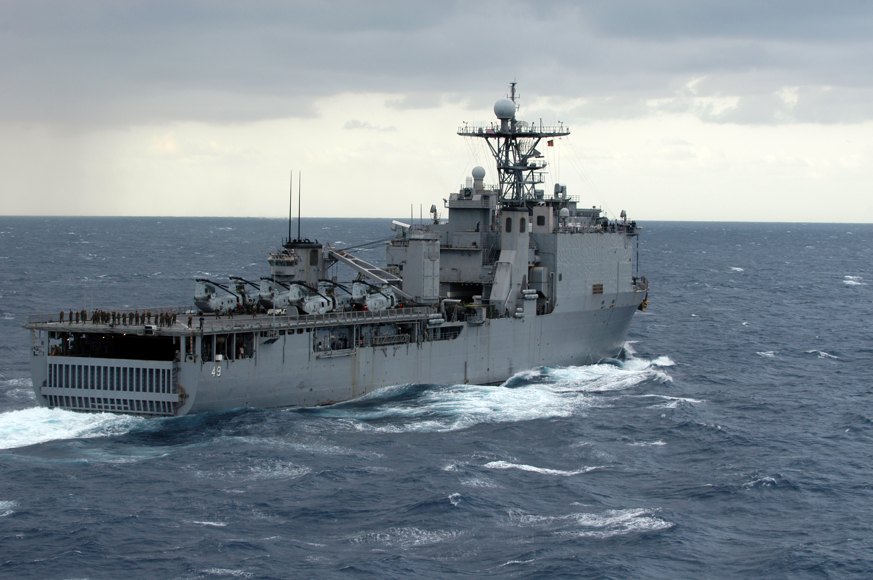 090131-N-6692A-004 EAST CHINA SEA The amphibious dock landing ship USS Harpers Ferry (LSD 49) is participating in Exercise Cobra Gold 09. Cobra Gold is an annual Thailand and United States co-sponsored coalition military exercise designed to train Thai, U.S. and Singaporean task force personnel.